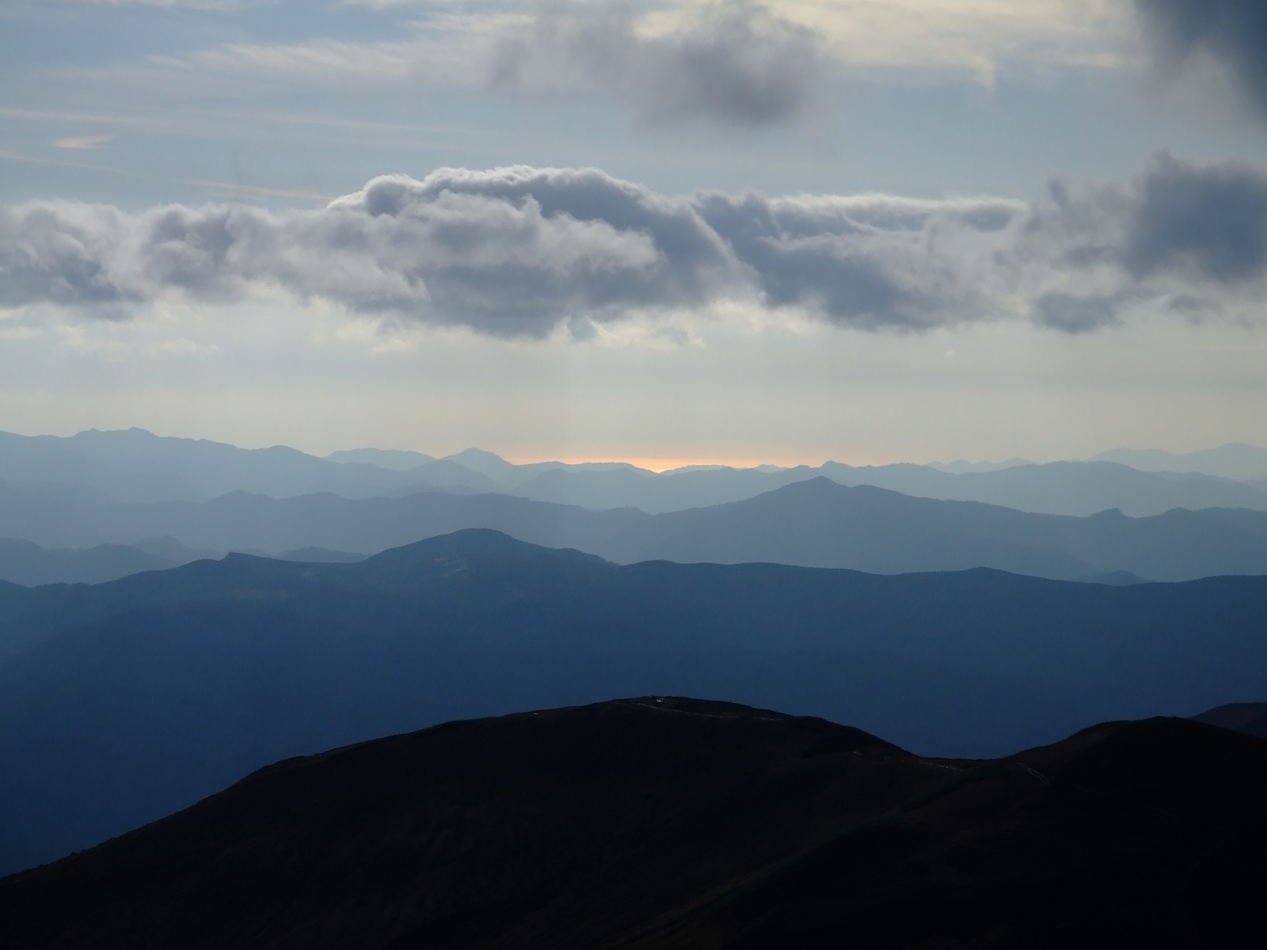 The Southwest view from the top of Mount Gassan.